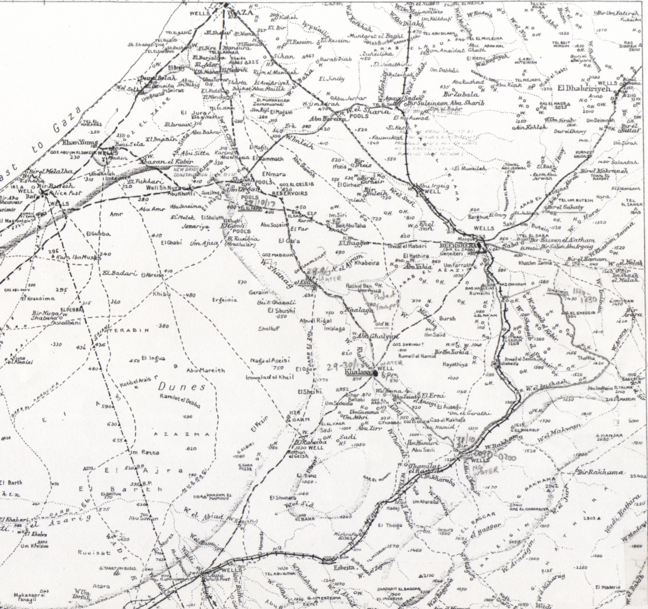 British Army General Staff Geographic Survey Section Map 697Z El Arish to Beersheba 7 and 22 January 1917